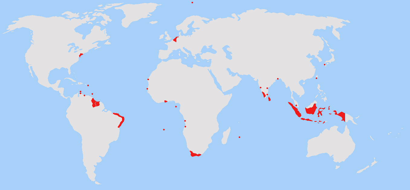 Map of the Dutch empire without VOC/WIC differation.